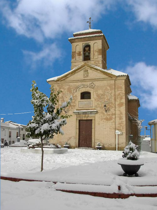 Church of Santo Cristo de la Salud, Nívar.png